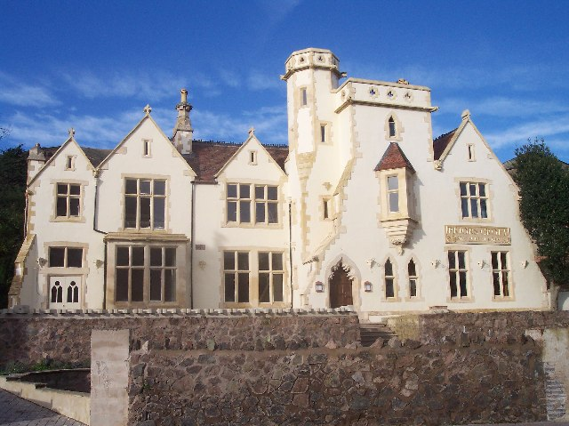 Prior's Croft. Victorian Gothic. For many years a solicitor's office. Located opposite the Malvern Theatre complex this impressive building has been beautifully restored as a restaurant and bar.